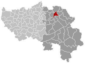 Map, municipality belgium Welkenraedt